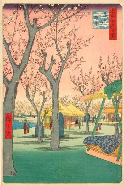 Part of the series One Hundred Famous Views of Edo, no. 027, part 1: Spring.